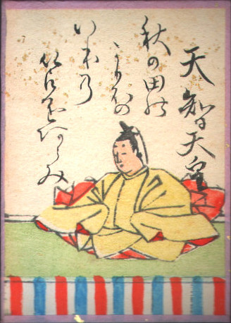 A portrait of Emperor Tenji; illustration from an uta-garuta playing card for Hyakunin Isshu, created in the Edo period.